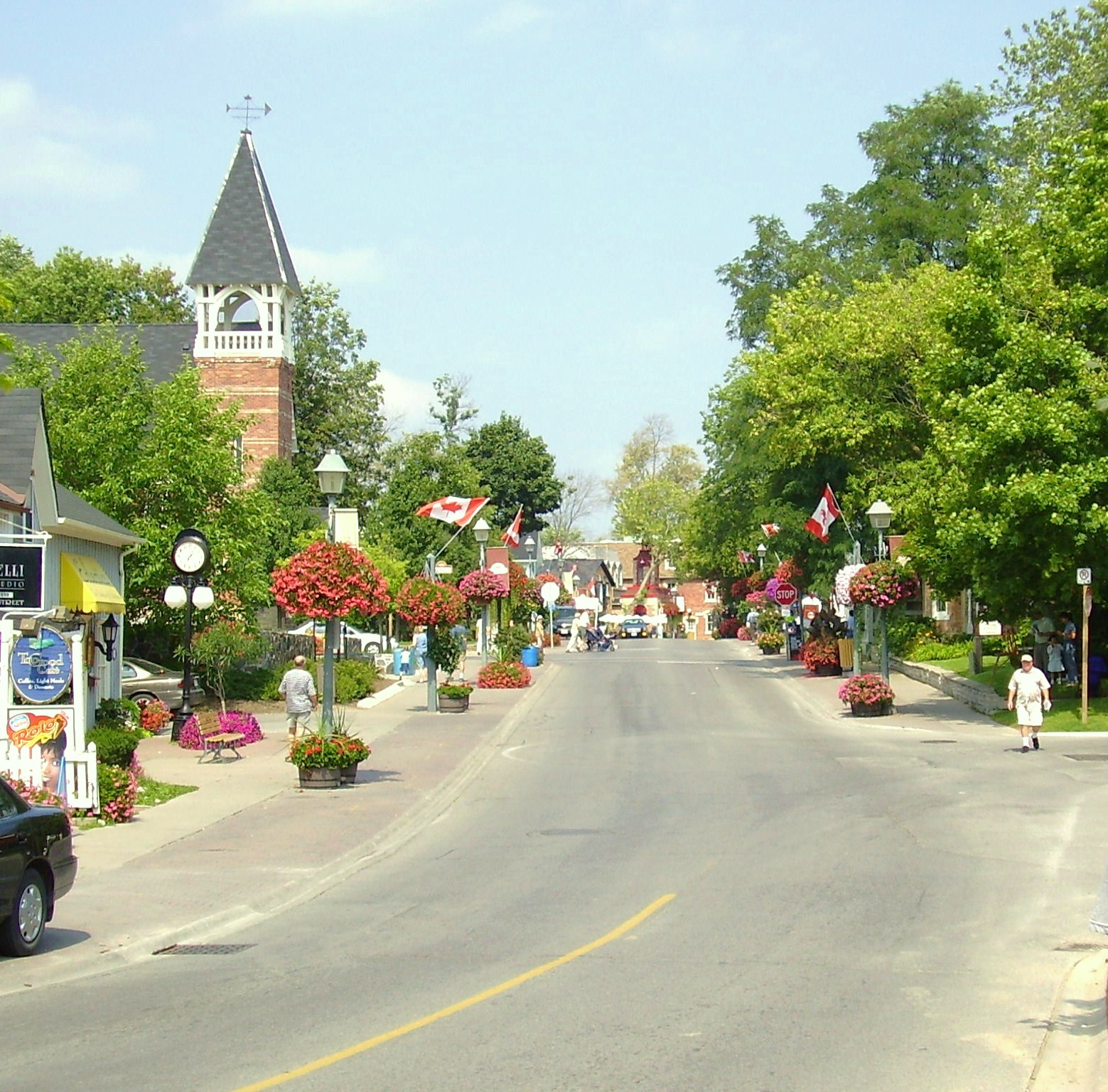 Centro de Unionville en Septiembre 2005 (Markham, Ontario)